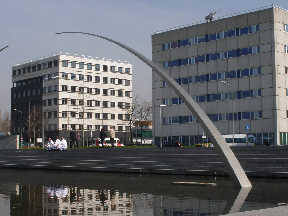 Maastricht, the Netherlands. University hospital buildings and monument for Peter Debye (Dipole moments) by Felix van de Beek.